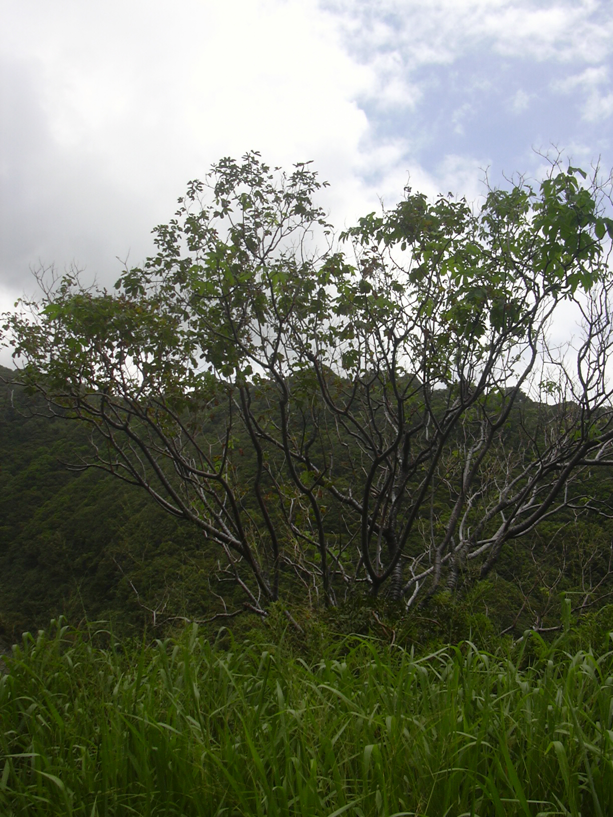 Manihot glaziovii (habit). Location: Maui, Nuanualoa